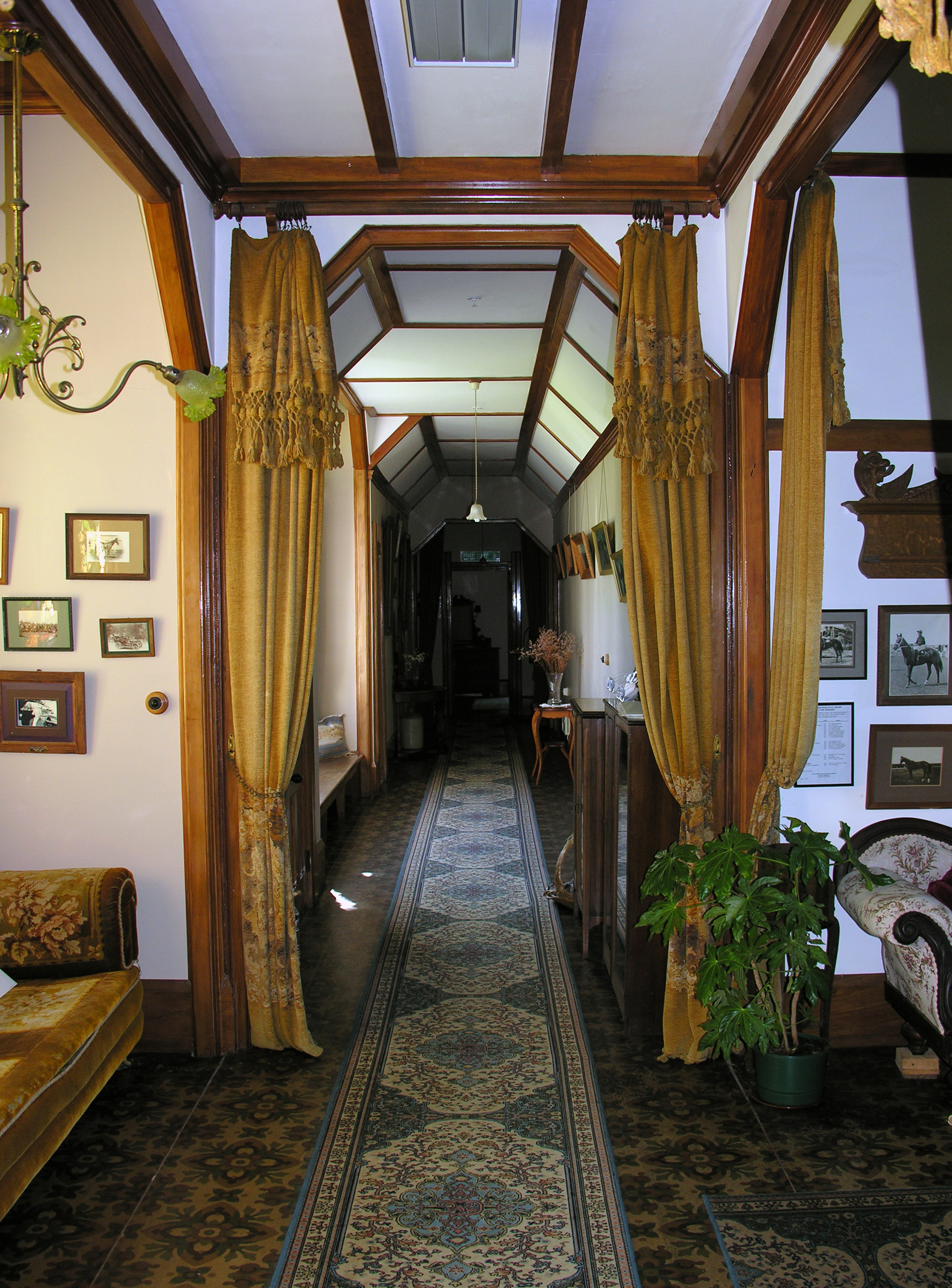 Bushy Park Homestead